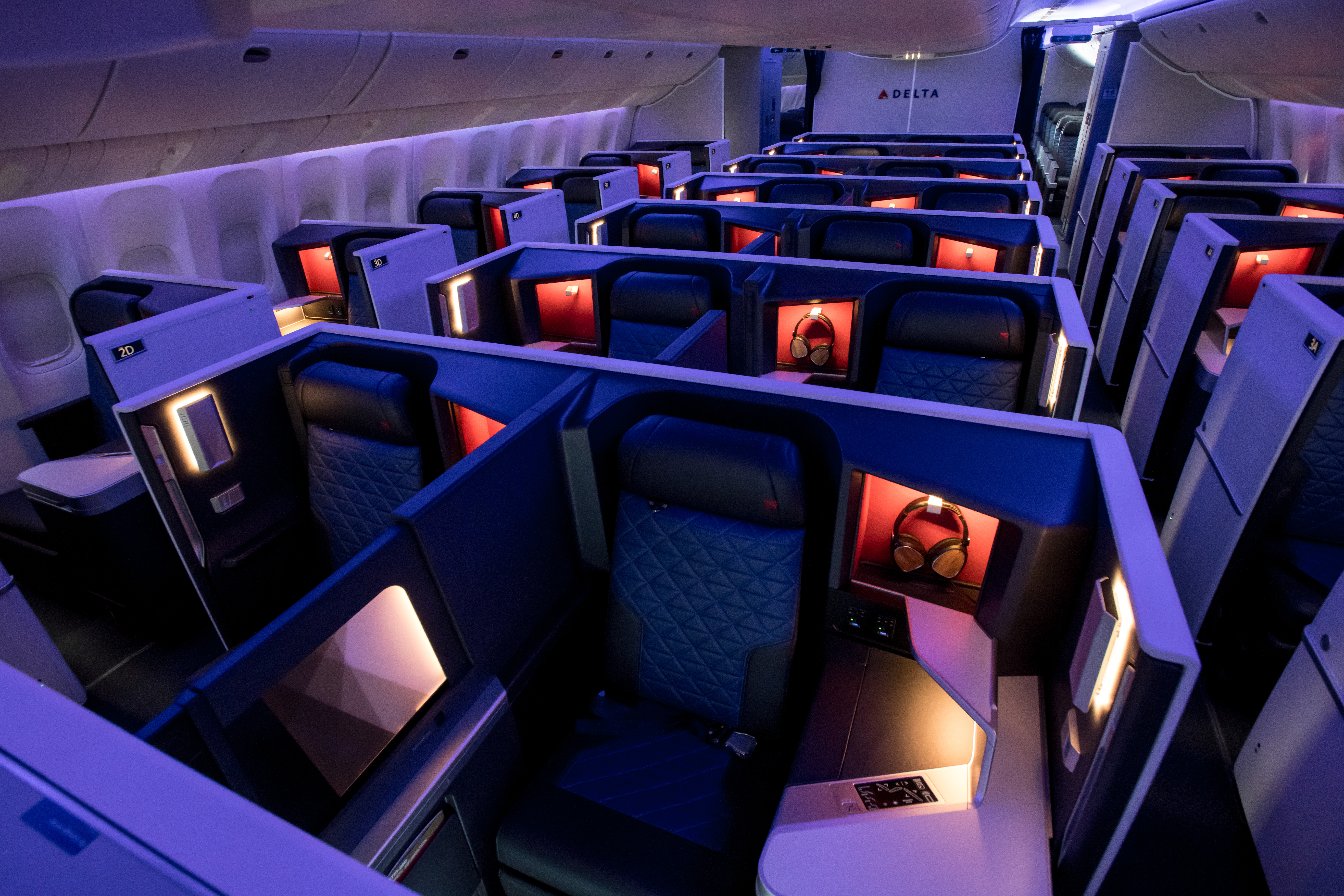 Delta’s refreshed 777 aircraft include 28 award-winning Delta One Suites, designed for exceptional customer comfort and privacy. The all-suite cabin features full-height doors, customizable ambient lighting and spacious compartments for belongings. (Chris Rank/Rank Studios)